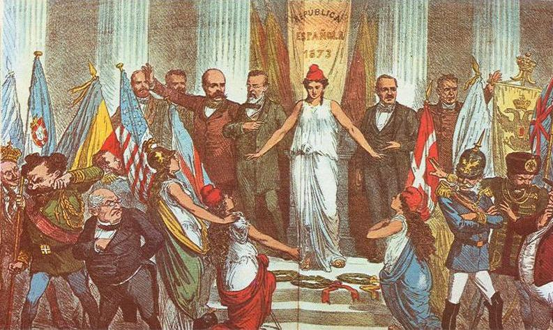 The world's republics (wearing revolutionary red Phrygian caps), such as France, the United States and Switzerland, praise the First Spanish Republic, whilst the monarchies reject it.